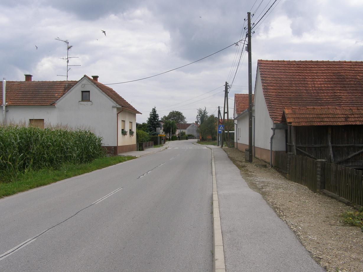 The street of Mlajtinci, Prekmurje